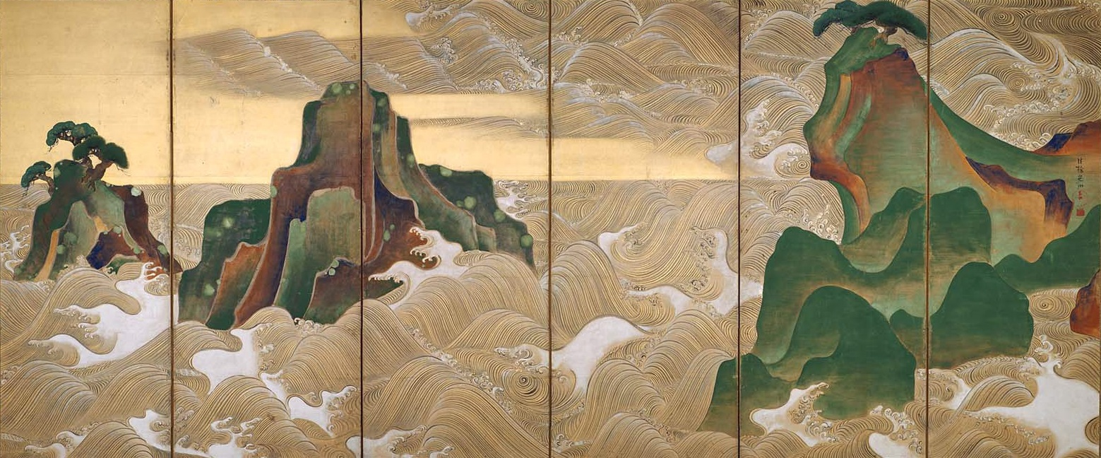 Waves at Matsushima by Ogata Kōrin (Museum of Fine Arts Boston)